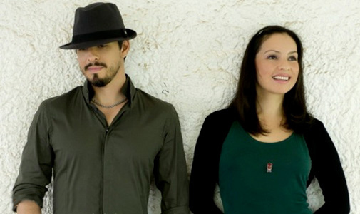 Their style is unique, and only All Access brings you an exclusive interview with the Mexican duo Rodrigo y Gabriela. Read everything about "Area 52", their latest album which was recorded in Cuba with a 13-piece orchestra. Be amazed with the album, its music and its history!